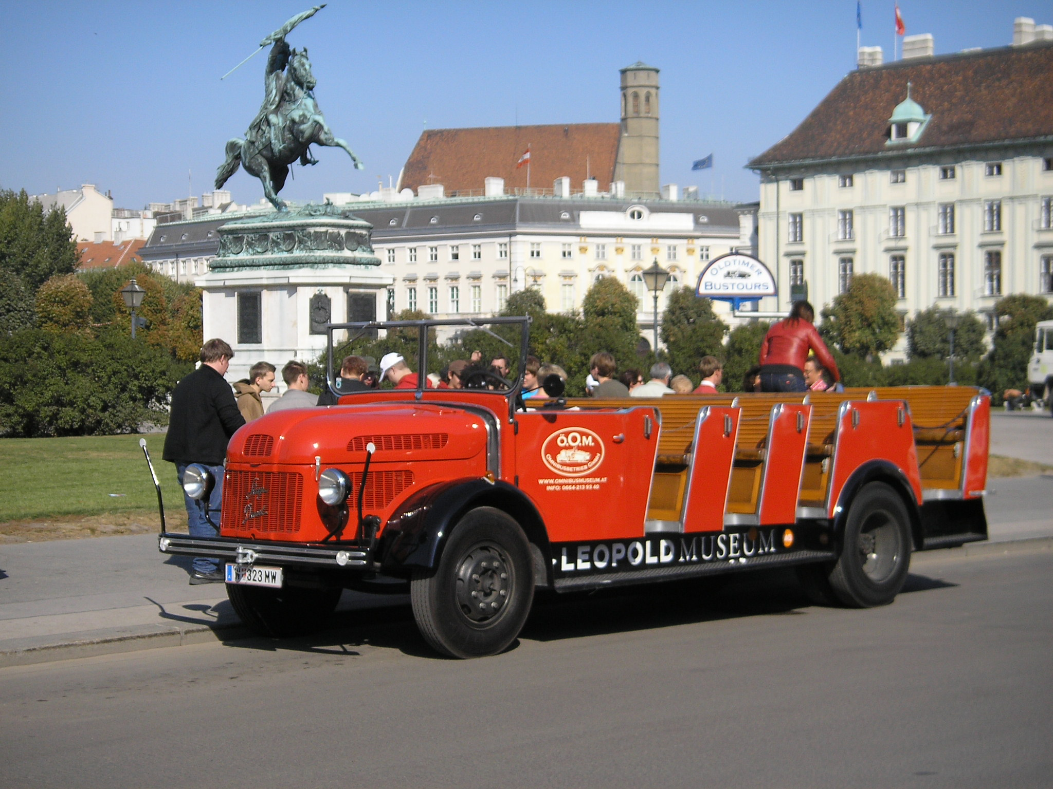 Image of a 1949 Steyr 380 vehicle at the Heldenplatz in Vienna.